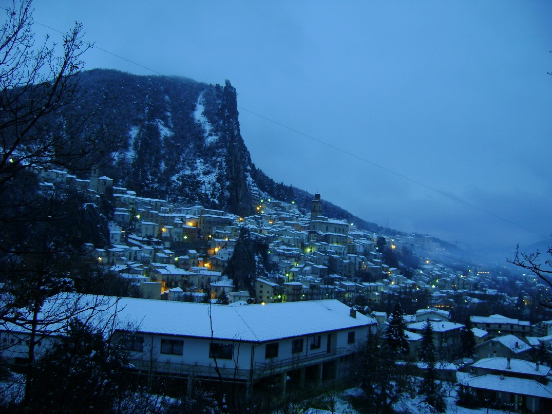 View of Villa Saint Maria with snow